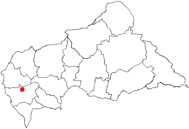 Carnot, Central African Republic Location Map; created with the GIMP. Made by User:Acntx.